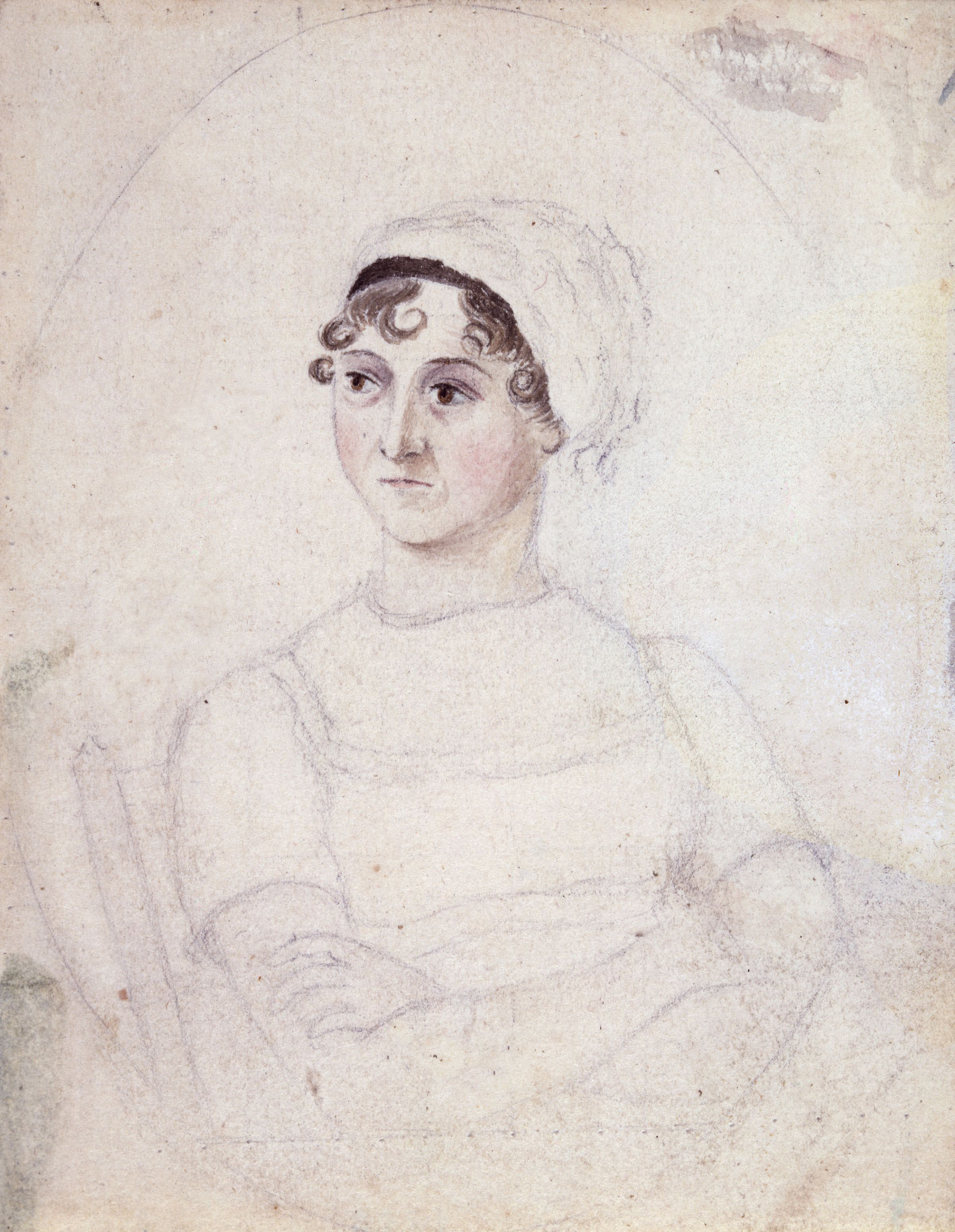 Portrait of Jane Austen in watercolor and pencil